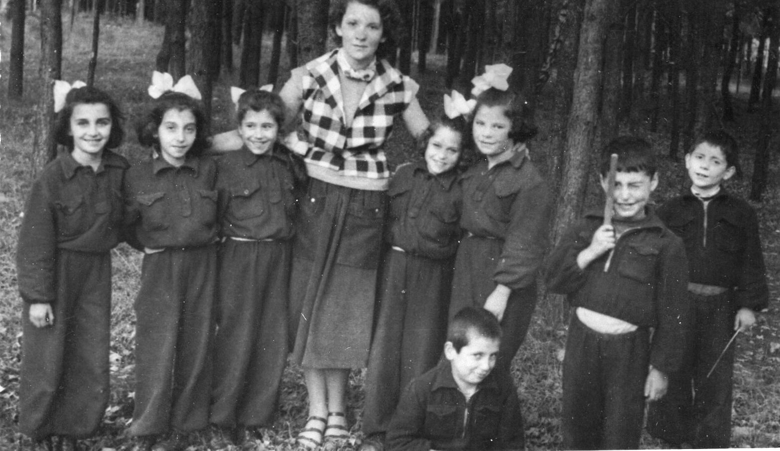 Children refugees from the village German, in a children's shelves in Poland This media file is produced by Wikipedian in Residence in Category:Wikipedian in Residence at DARM in 2016.